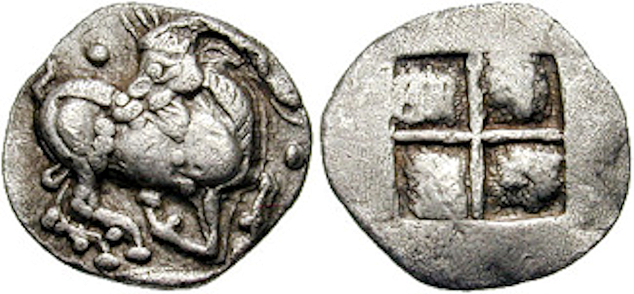 MACEDON, Aegae. Circa 510-480 BC